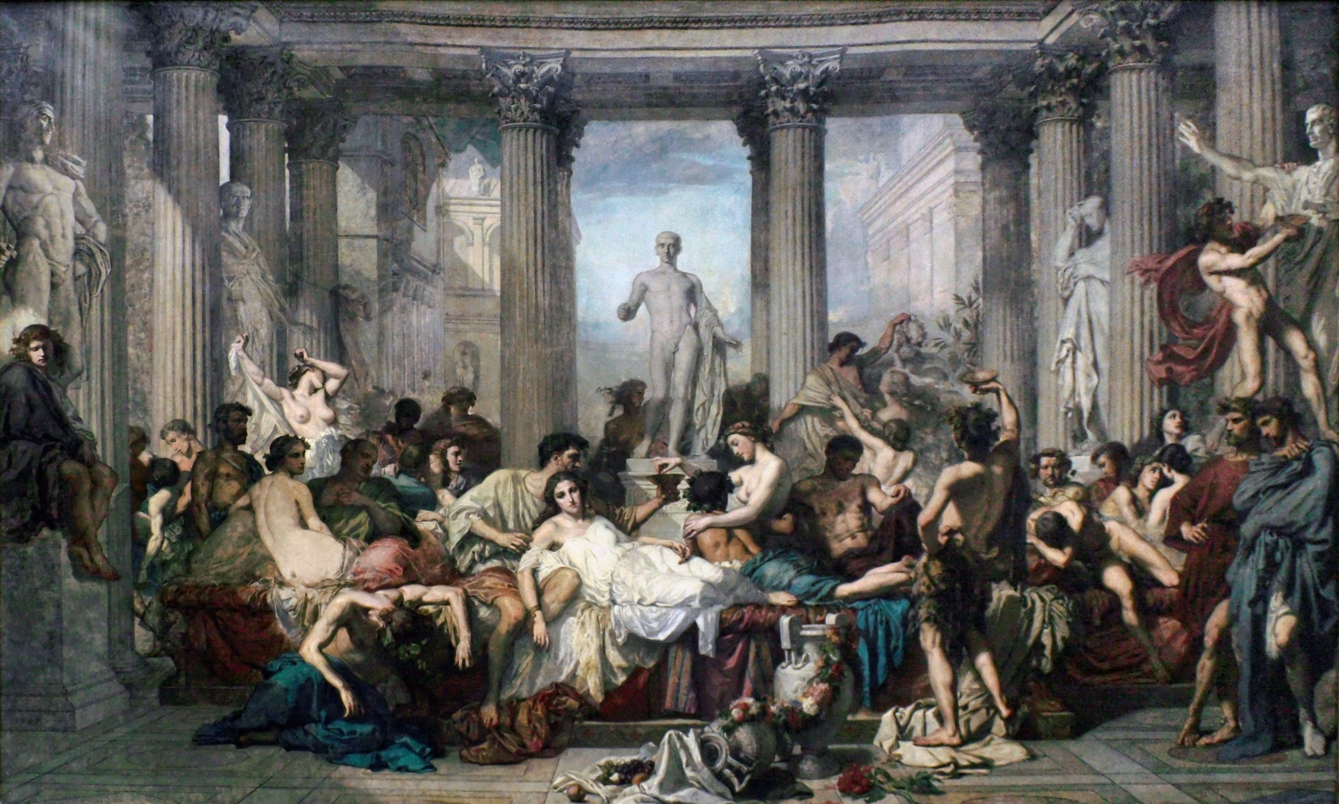 Painting of Thomas Couture in the Musée d'Orsay, Paris